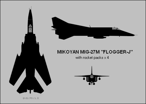 MiG-27M